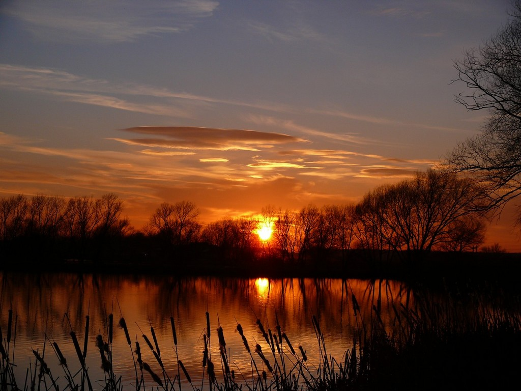 Fish pond of Skalica